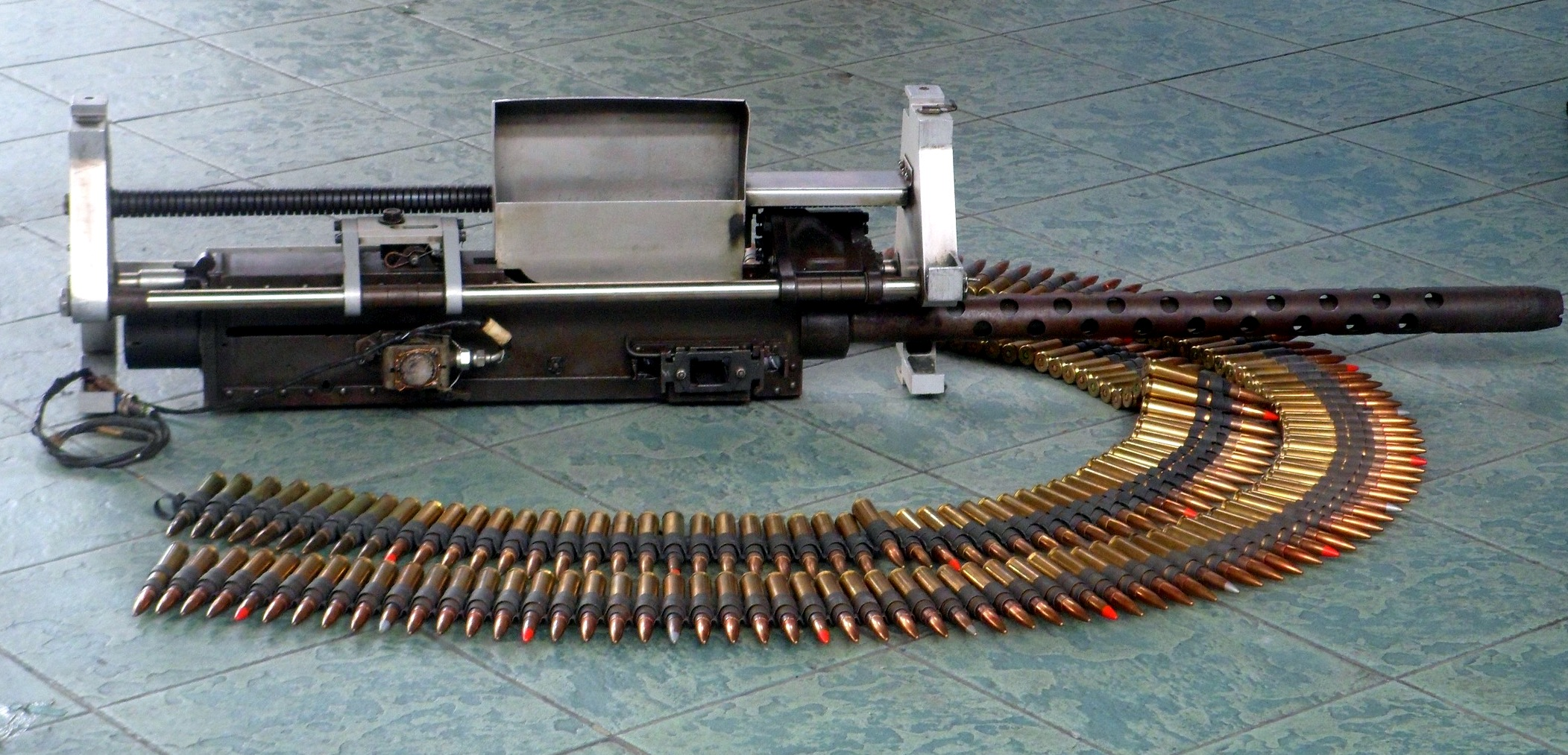 The Browning M3 .50 caliber Machine Gun used in the Aerotech Gun Pod for the AS-211 Warrior